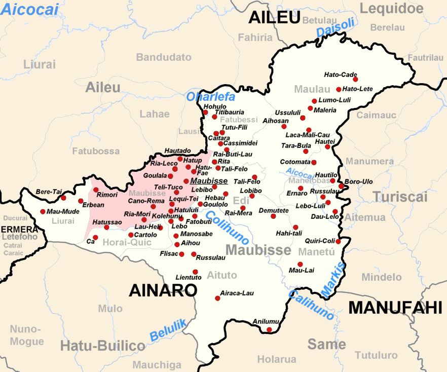 The subdistrict of Maubisse, district Ainaro, East Timor